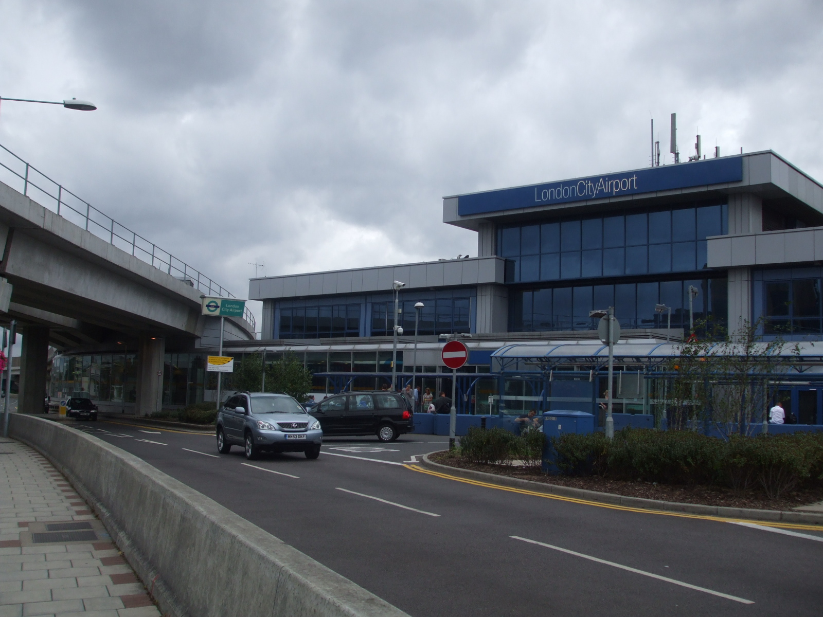 Main entrance to London City Airport and adjoining DLR station (sign visible on left)